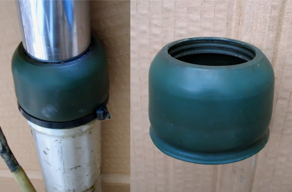 Scraper to fork, to the left you can see it applied to the fork to the right you can see the interior detail of the same.